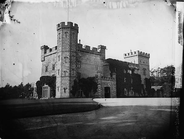 1 negative : glass, wet collodion, b&w ; 16.5 x 21.5 cm.